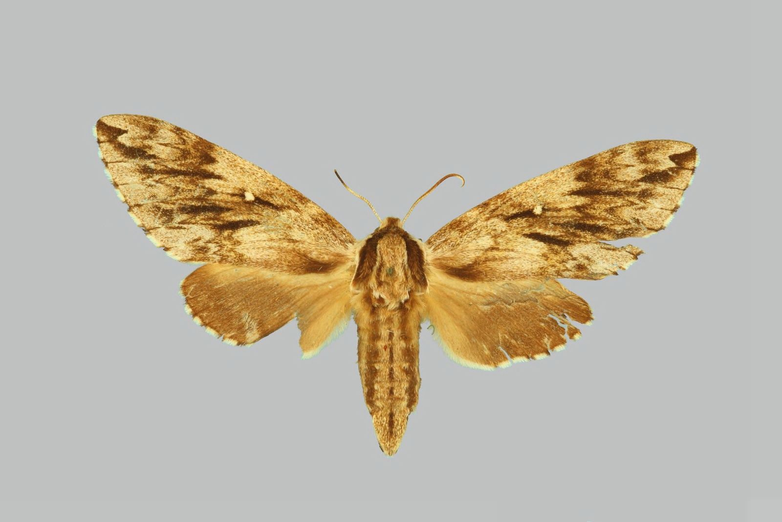 Kentrochrysalis consimilis, female, upperside.